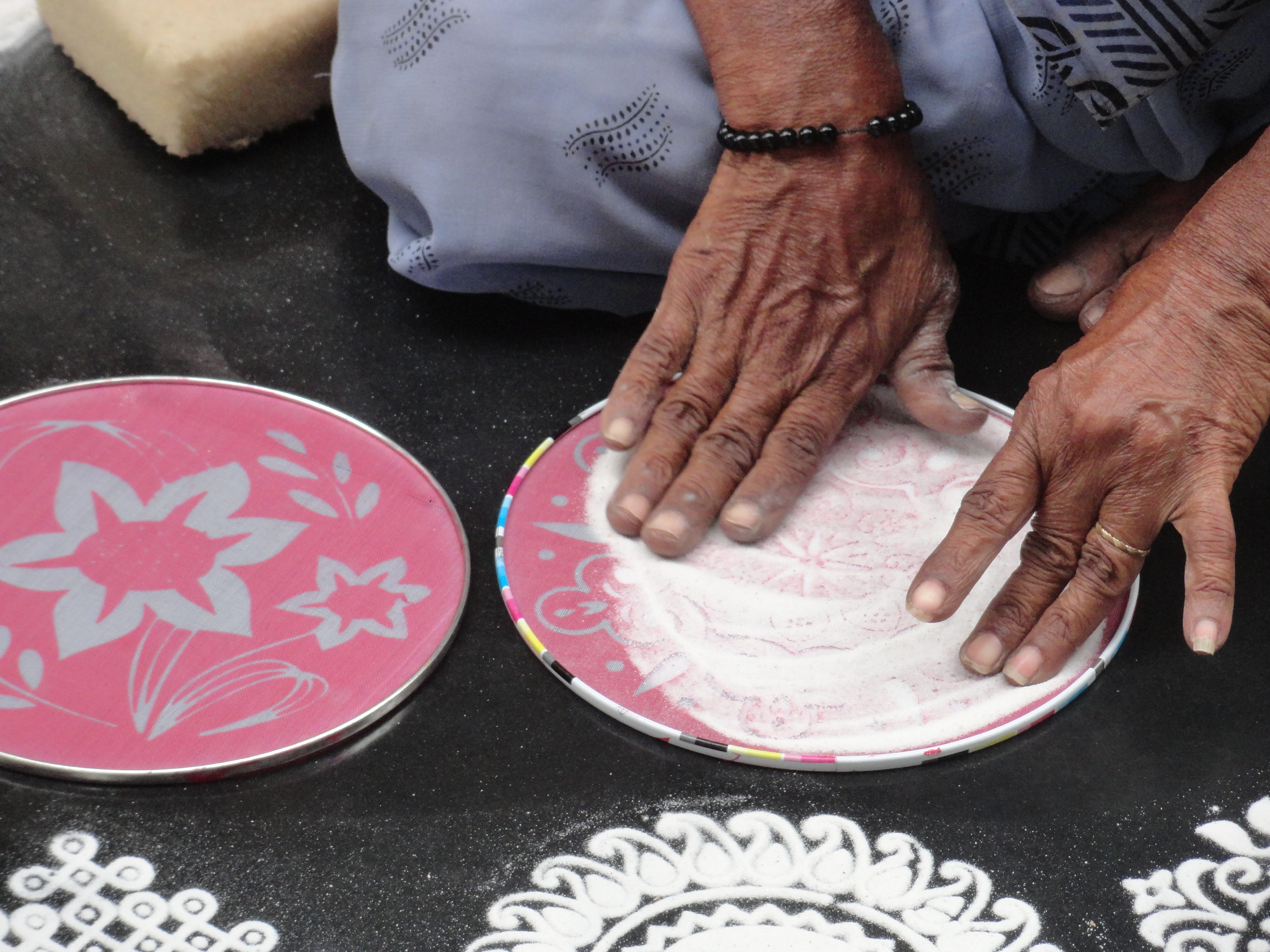 ముగ్గులు అచ్చుతో ముగ్గులు వేయుడం. తిరుచానూరు లో తీసిన చిత్రం